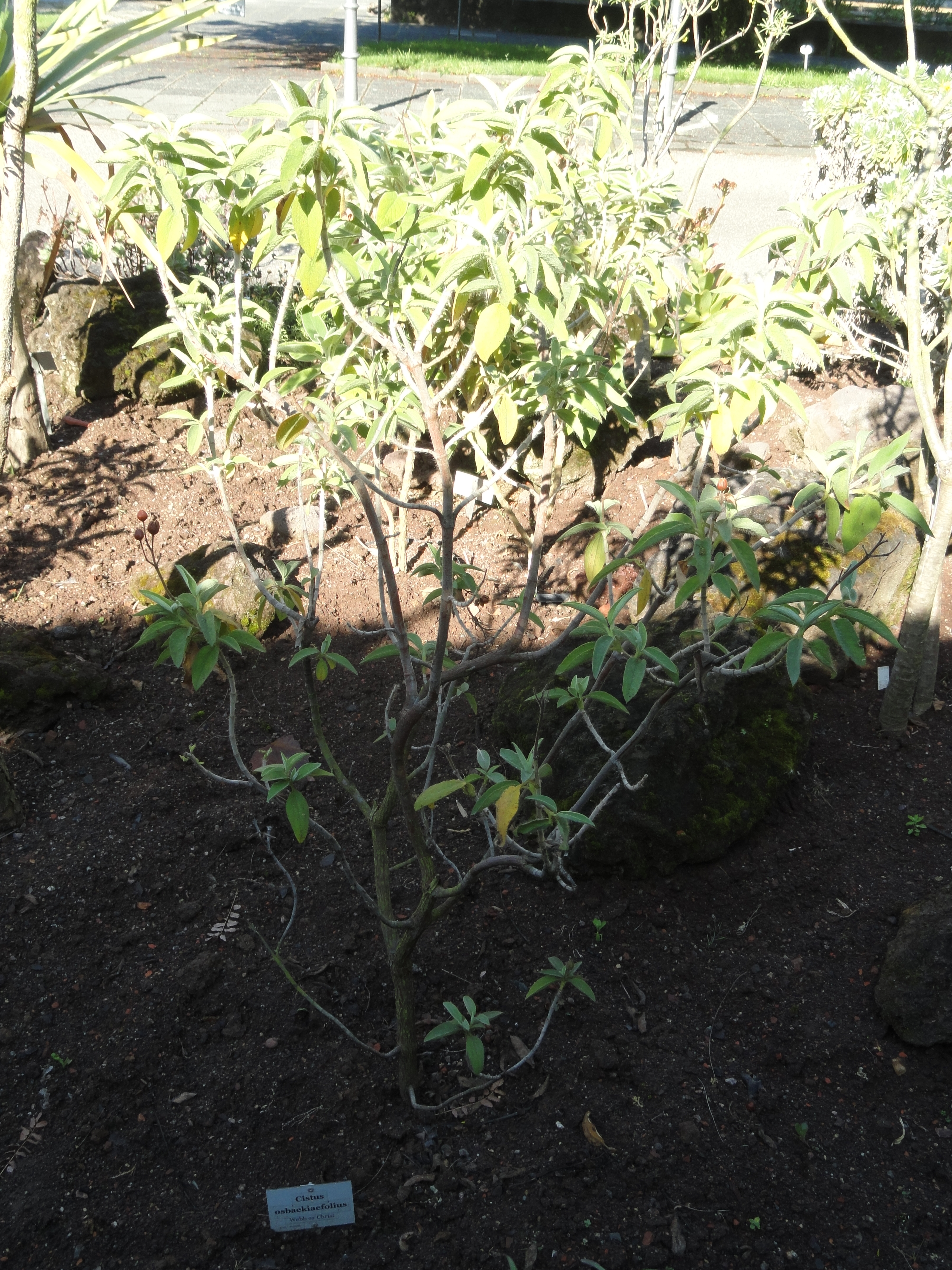 Botanical specimen in the Botanischer Garten, Frankfurt am Main, located at Siesmayerstraße 72, Frankfurt am Main, Germany.